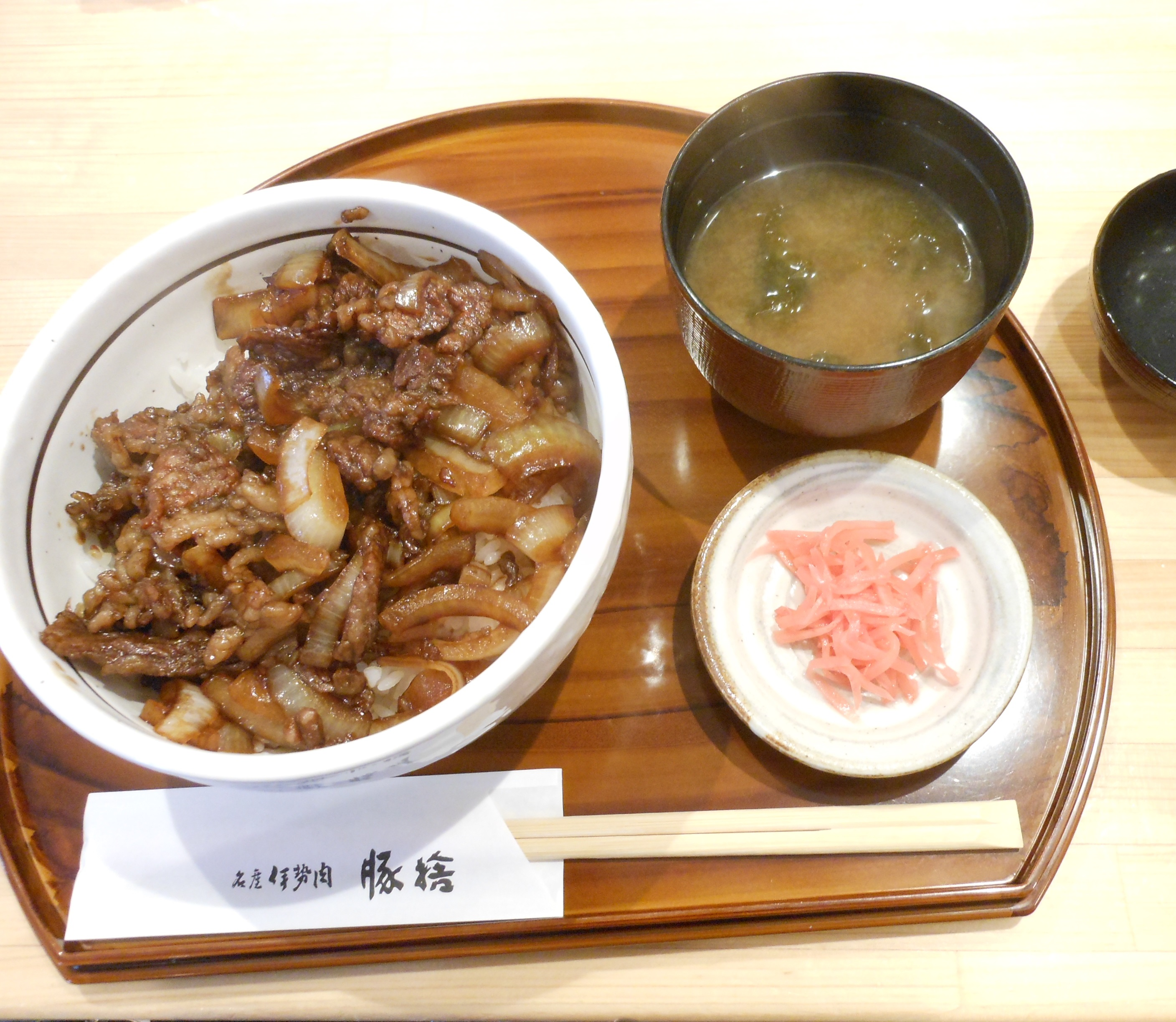 This is Ise beef Gyudon. It was served by Butasute Geku-mae shop.